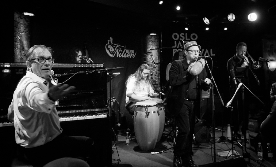 Hovedøen Social Club at Herr Nilsen. The concert was part of Oslo Jazzfestival and took place on 19. August 2017 in Oslo. Lineup: Sergio Gonzalez (vocal), Sverre Indris Joner (piano), Even Kruse Skatrud (trombone), Alejandro Gispert Navarro (double bass), Eduardo Cedeño (conga) and Marius Bastiansen (timbales).